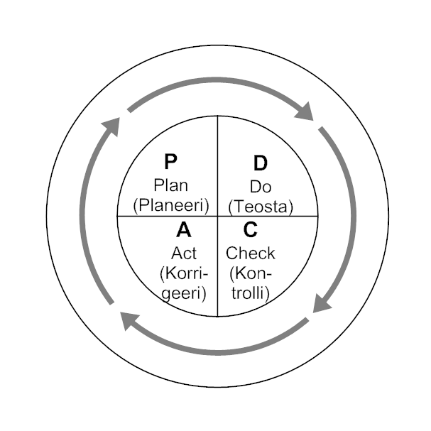 deming circle